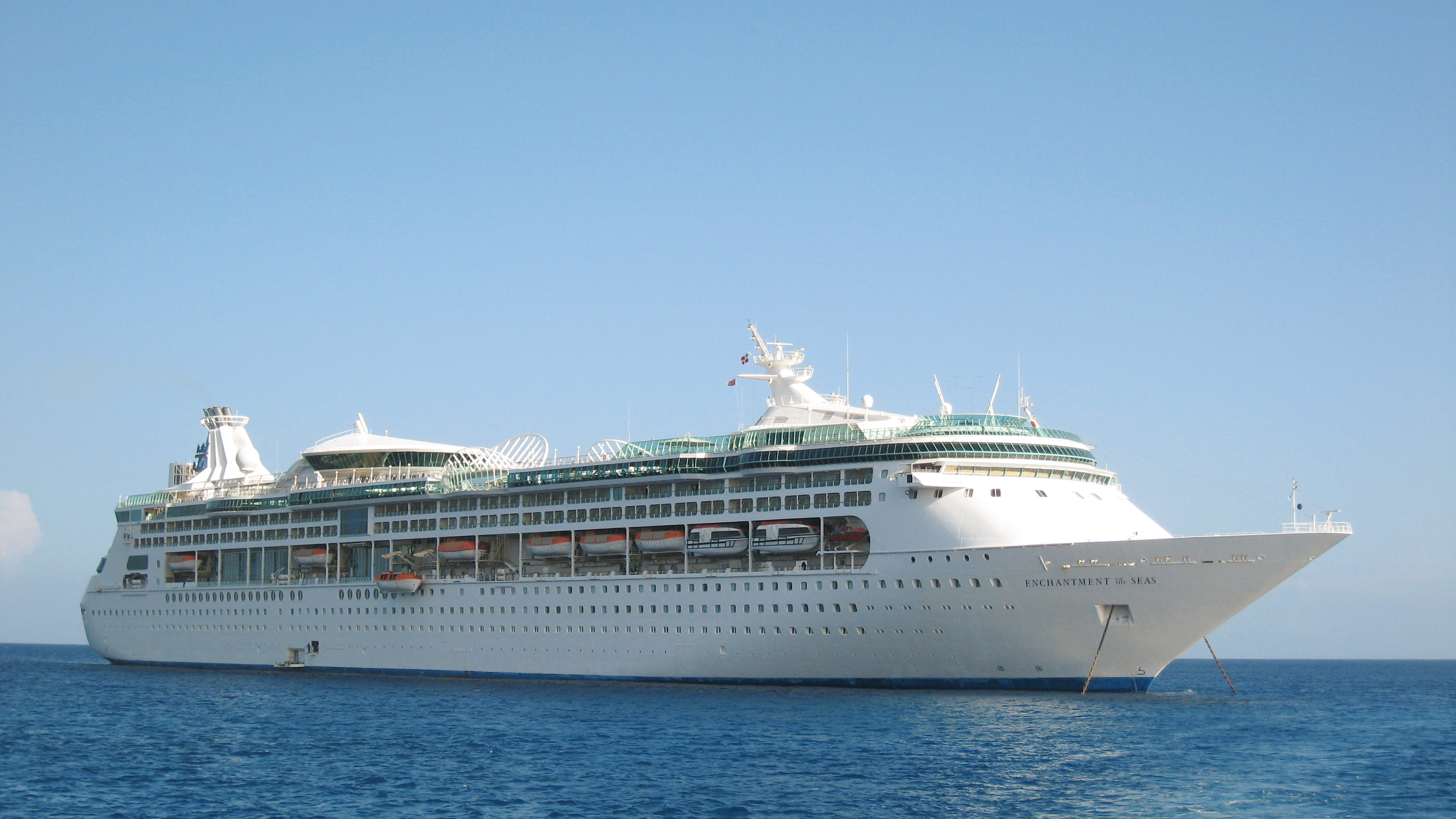 MS Enchantment of the Seas